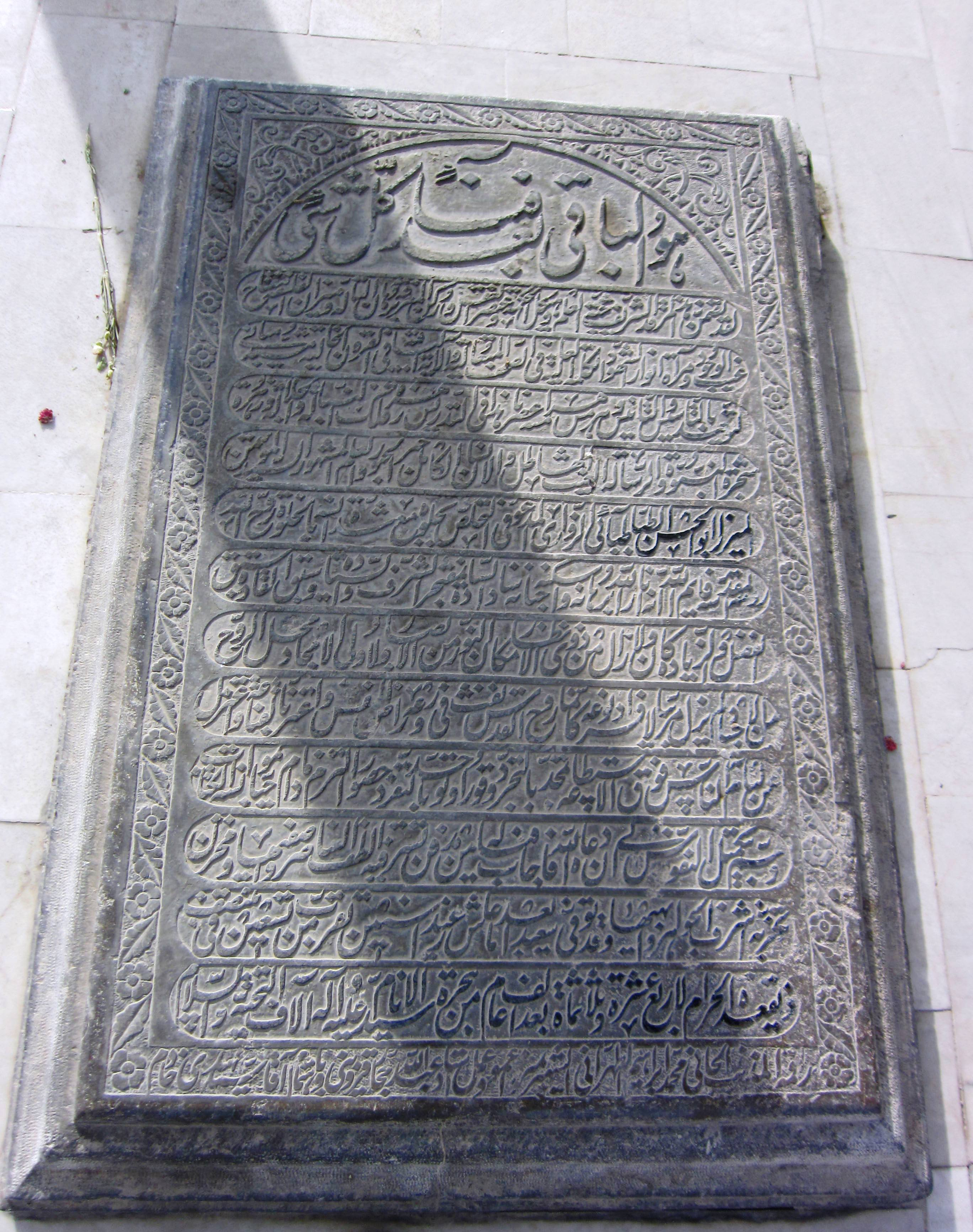 The grave of Mirza Abo al-Hasan Tabatabai (Jelveh) at Ibn Babawayh cemetery, Rey